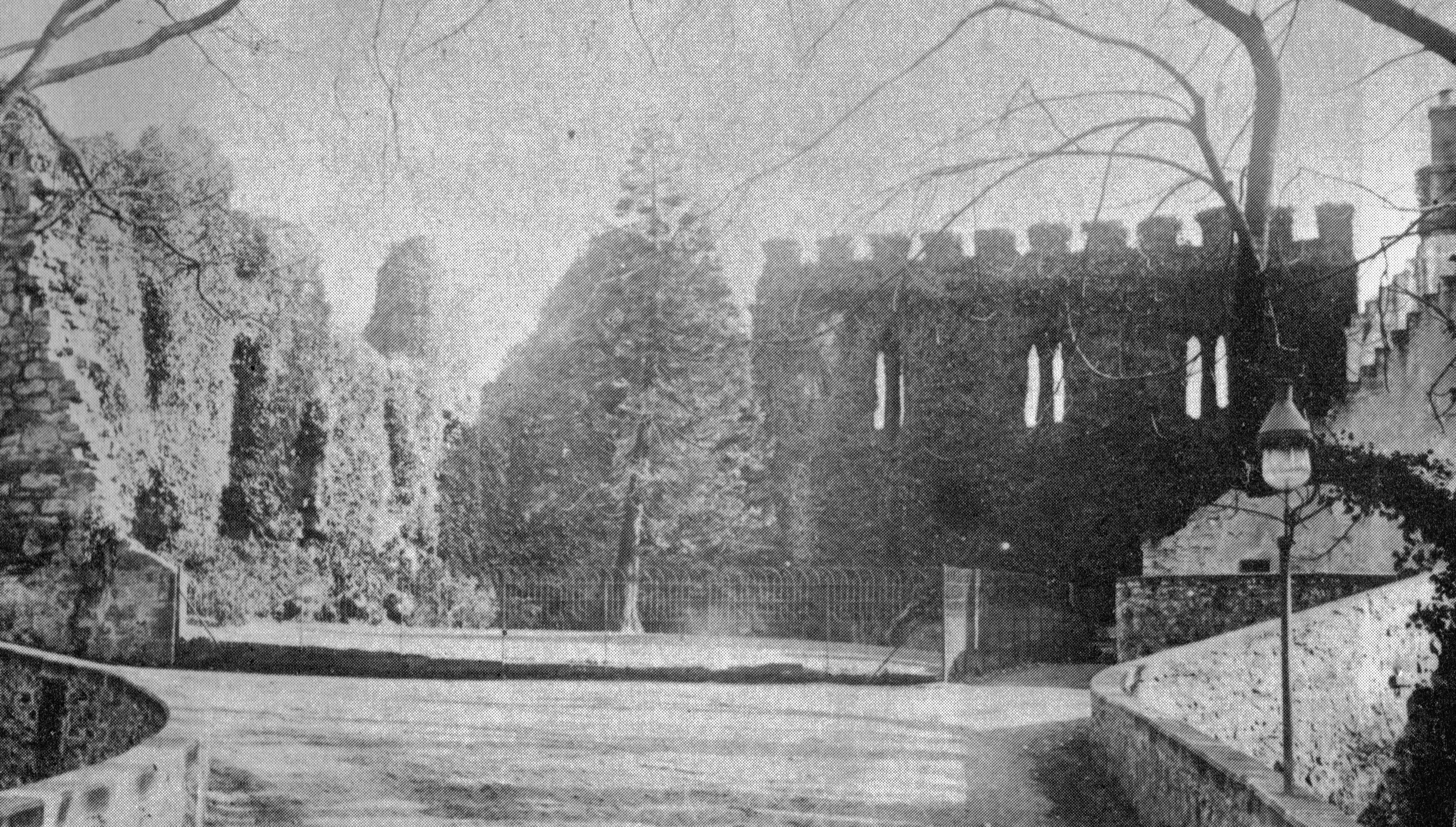 Kerelaw Castle, David Livingstone's Laburnum Tree, Stevenston, Ayrshire, Scotland.